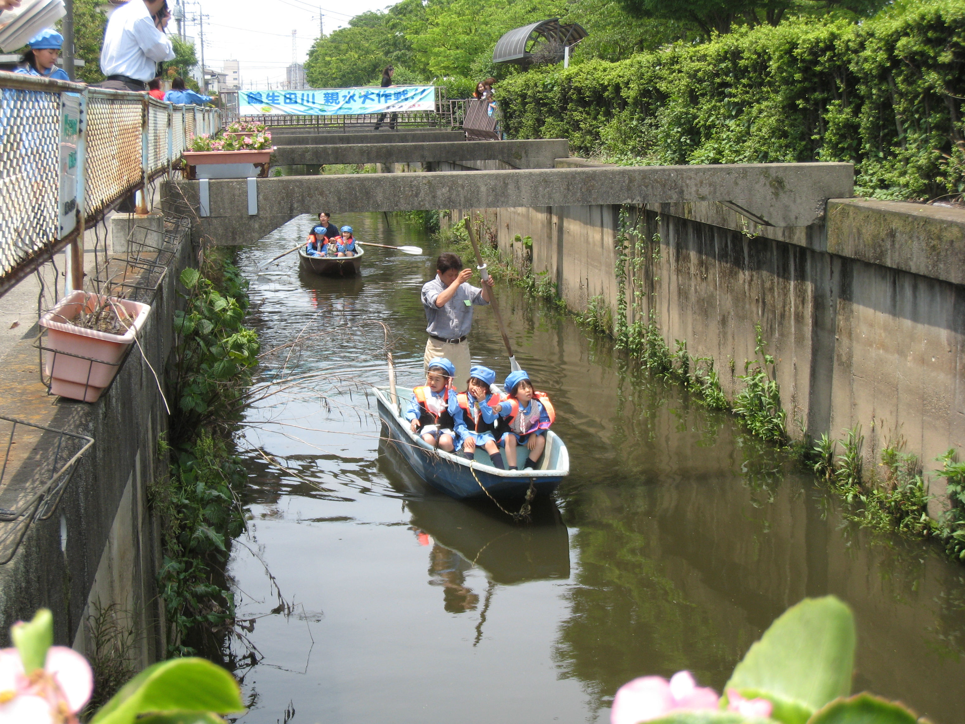 Boat ride in Tsuruuda-kawa(river) for being in close contact with water in Tatebayashi,Gunma Prefecture,Japan